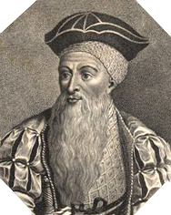 Afonso de Albuquerque (1462-1515), Portuguese soldier and politician.